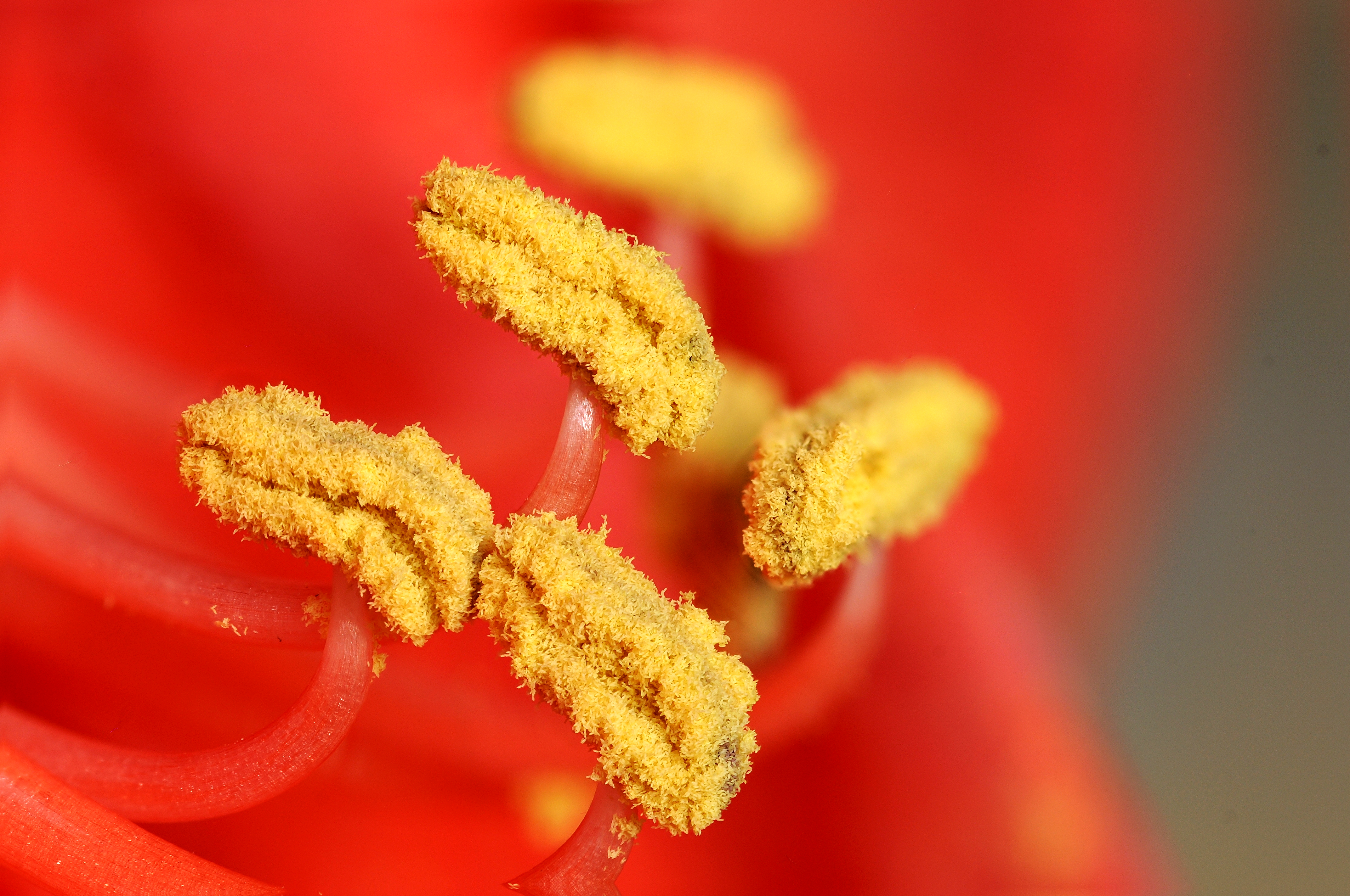 This photograph was taken with a Nikon D300 This image was created with CombineZP ( It was created out of 25 single images.). Focus stacking of 25 pictures (using CombineZP).Étamines d'une fleur d'Amaryllis (amaryllis sp.) (focus stacking). Image composée de 25 photos assemblées avec CombineZP.